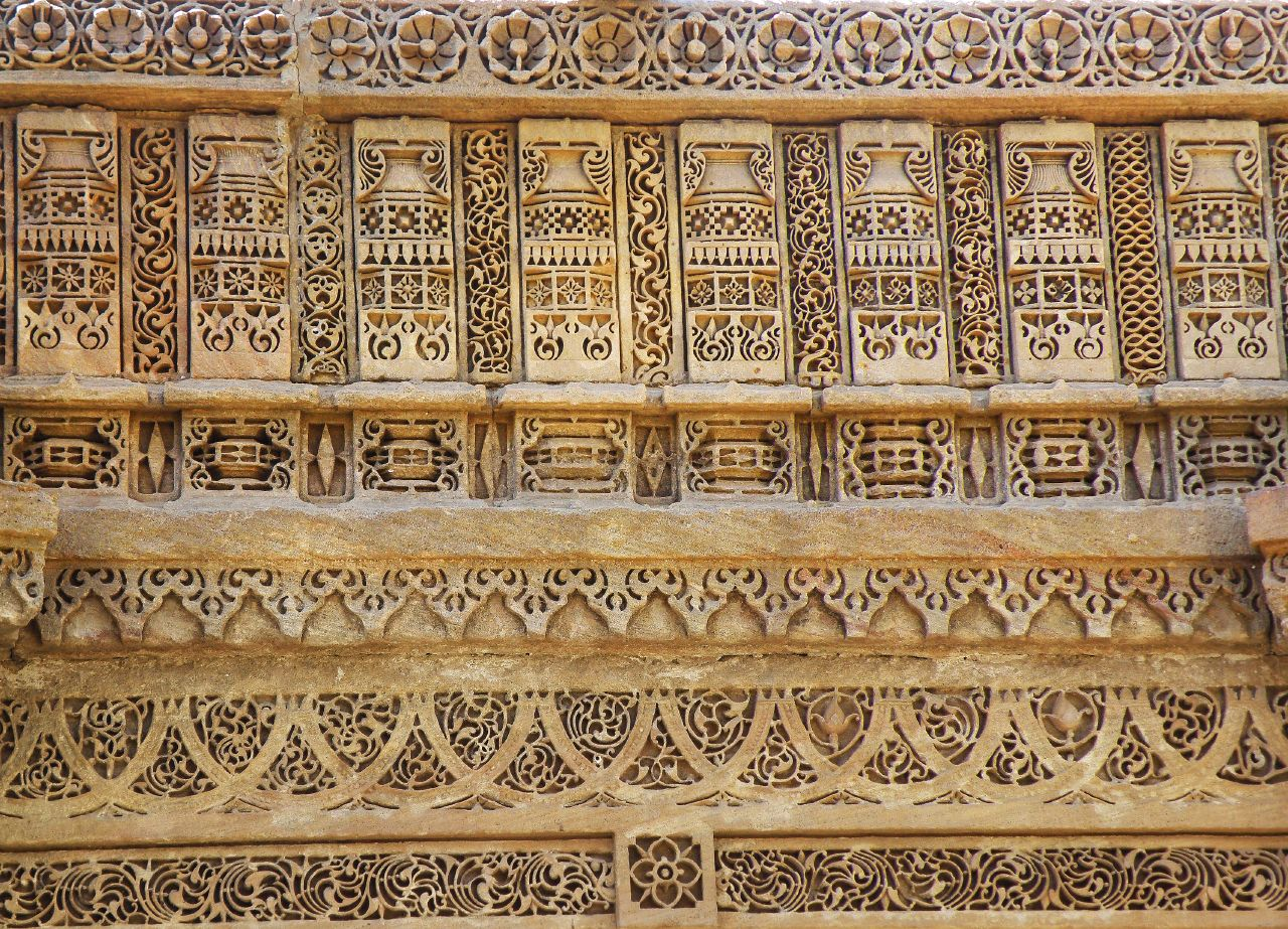 Carving on sandstone at Adalaj stepwell. The patience and degree of accuracy of the workers who built this stepwell must have been amazingly admirable. To create the same pattern over and over again (without any modern die-like equipment which we use today for mass manufacturing) must have required a high level of concentration. Read about Adalaj " here